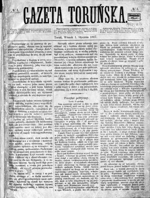 The front page of first issue of Gazeta Toruńska. 1867 - no. 1